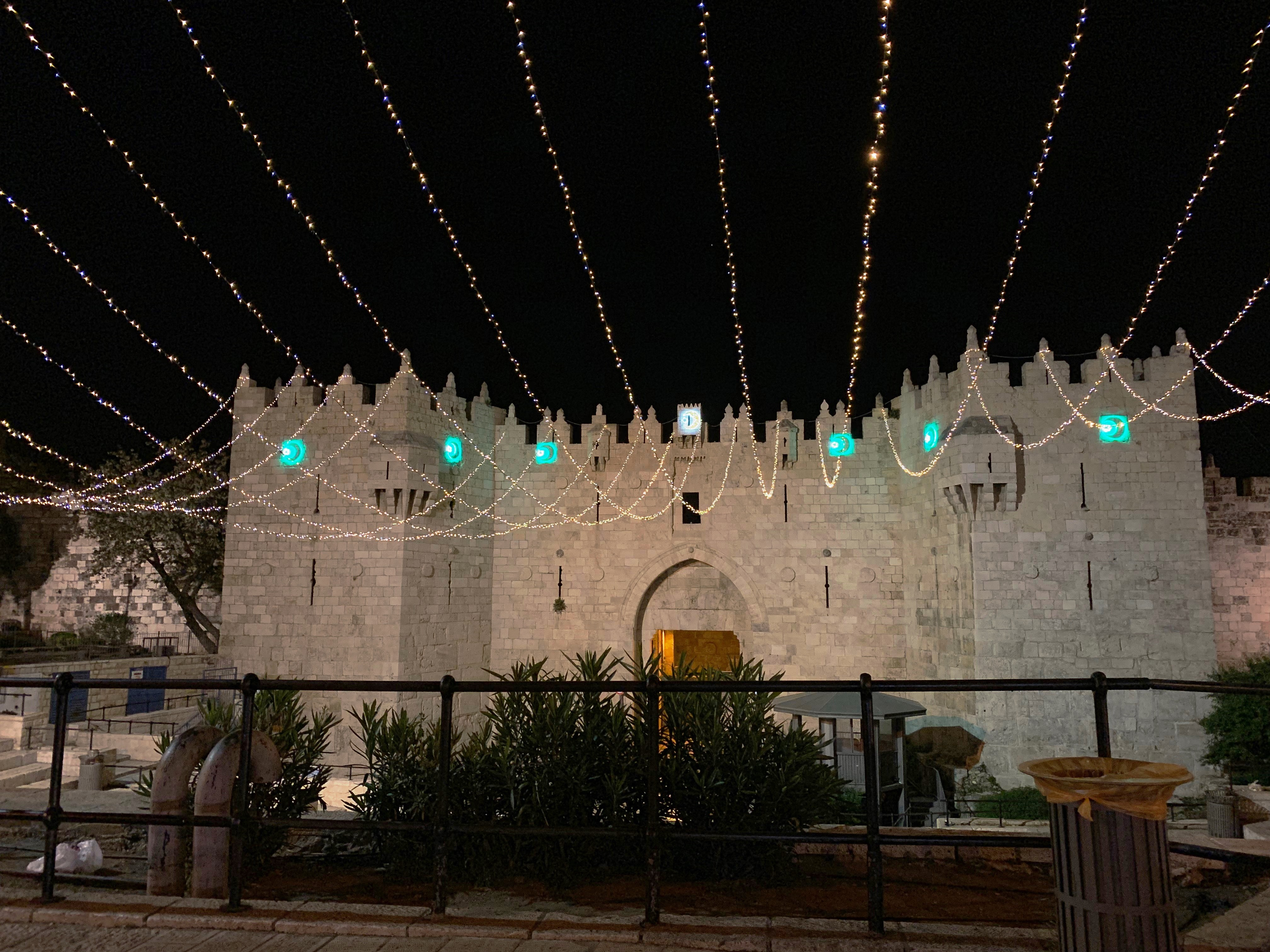 Damascus Gate at night, 2019.